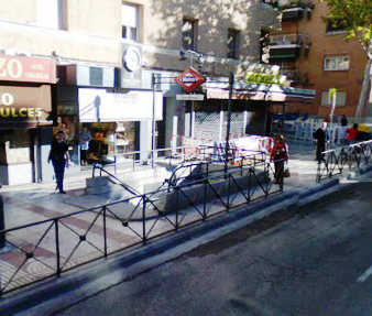 Metro station of the neighbourhood 'Quintana' Madrid.